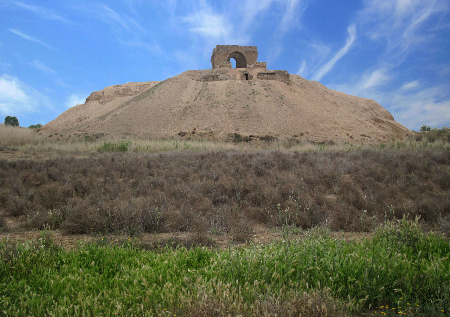 Tappeh Mill or Ray Fire Temple, 2000 old years, This site hase been excavated by the French archaeologists in 1901 A.C. (more info in first comment) Ray, Tehran, Iran تپه میل یا میل تپه ، آتشکده باستانی ری، قلعه نو، تهران، ایران